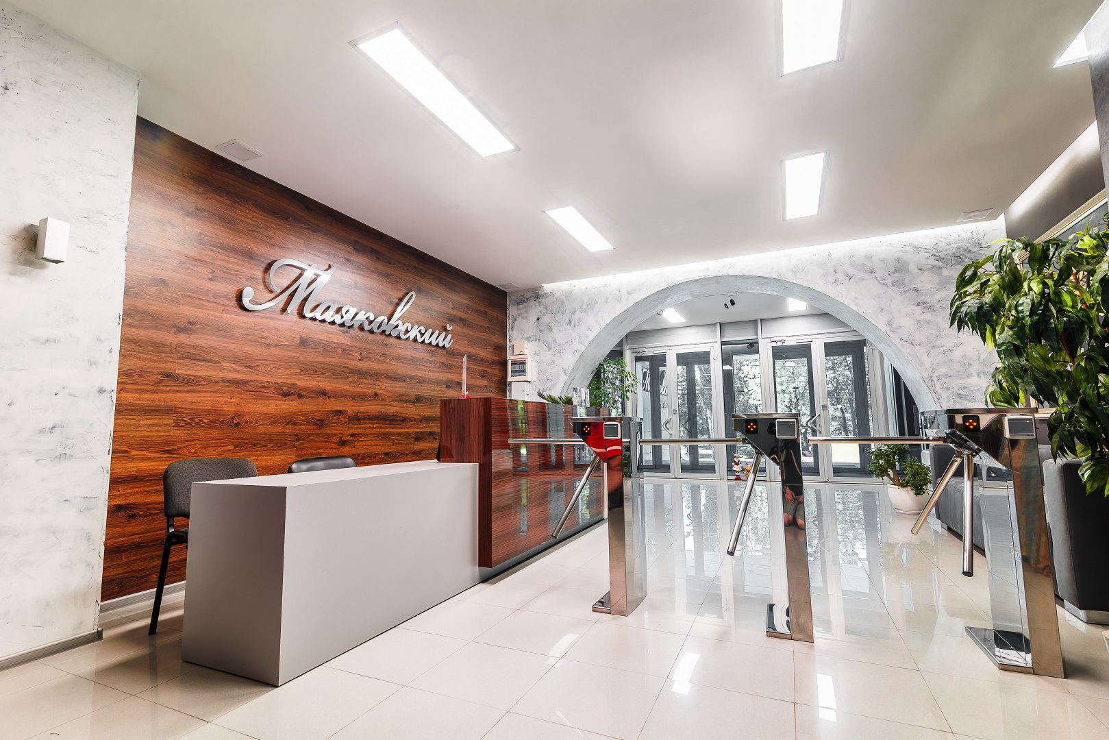 БЦ Маяковский, reception , 1 этаж